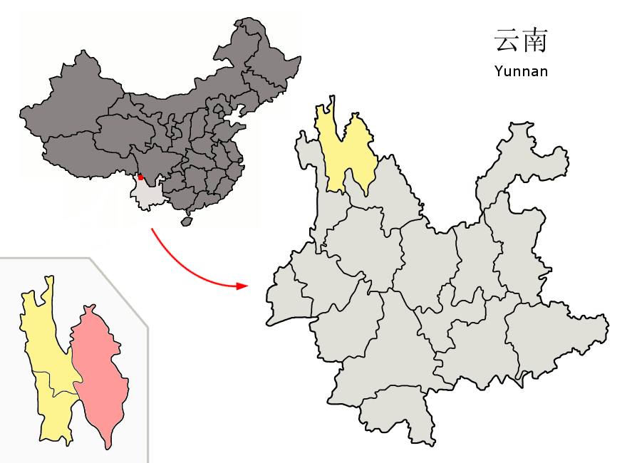 Location of Shangri-La County (pink) and Dêqên prefecture (yellow) within Yunnan province of China Map drawn in september 2007 using various sources, mainly : Yunnan province administrative regions GIS data: 1:1M, County level, 1990 Yunnan Counties map from